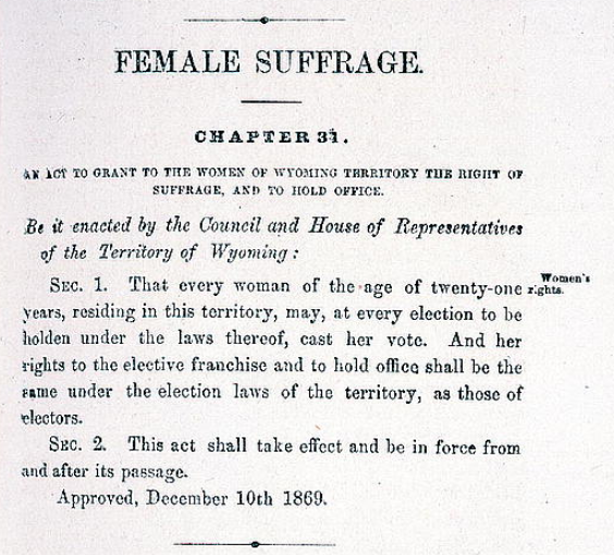 The Wyoming Territory's women's suffrage legislation